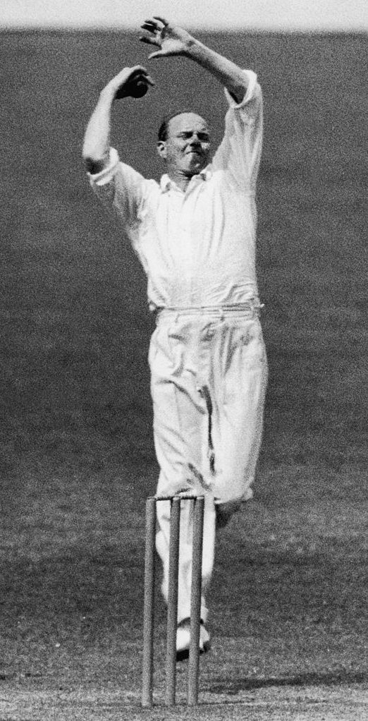 Bill O'Reilly, Australian cricketer.